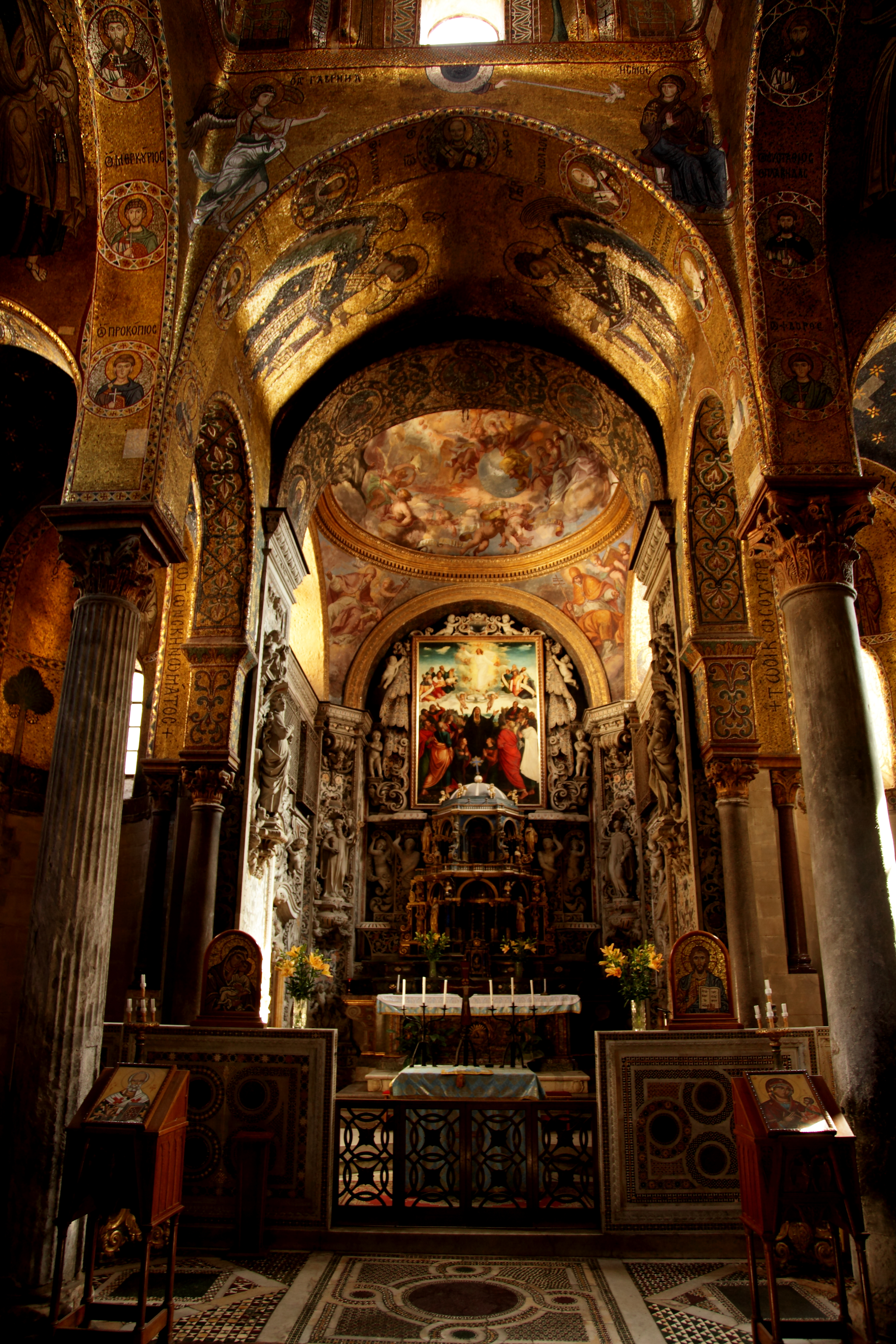 La Martorana, also known as Santa Maria dell'Ammiraglio (Saint Mary of the Admiral), is a church in Palermo (Sicily, Italy). The church is annexed to the next-door church of San Cataldo and overlooks the Piazza Bellini in central Palermo.